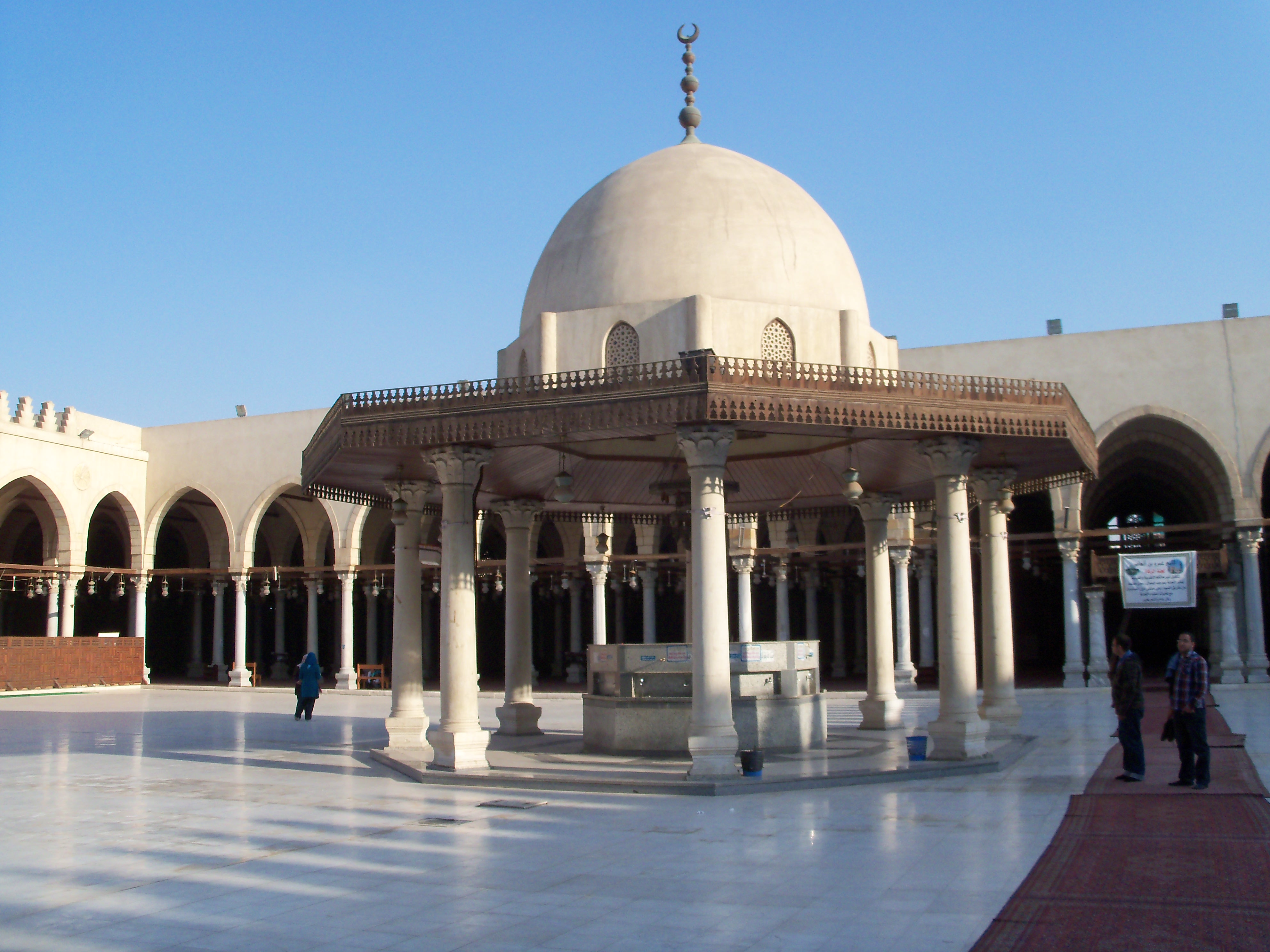 December 2011 photowalk in Cairo